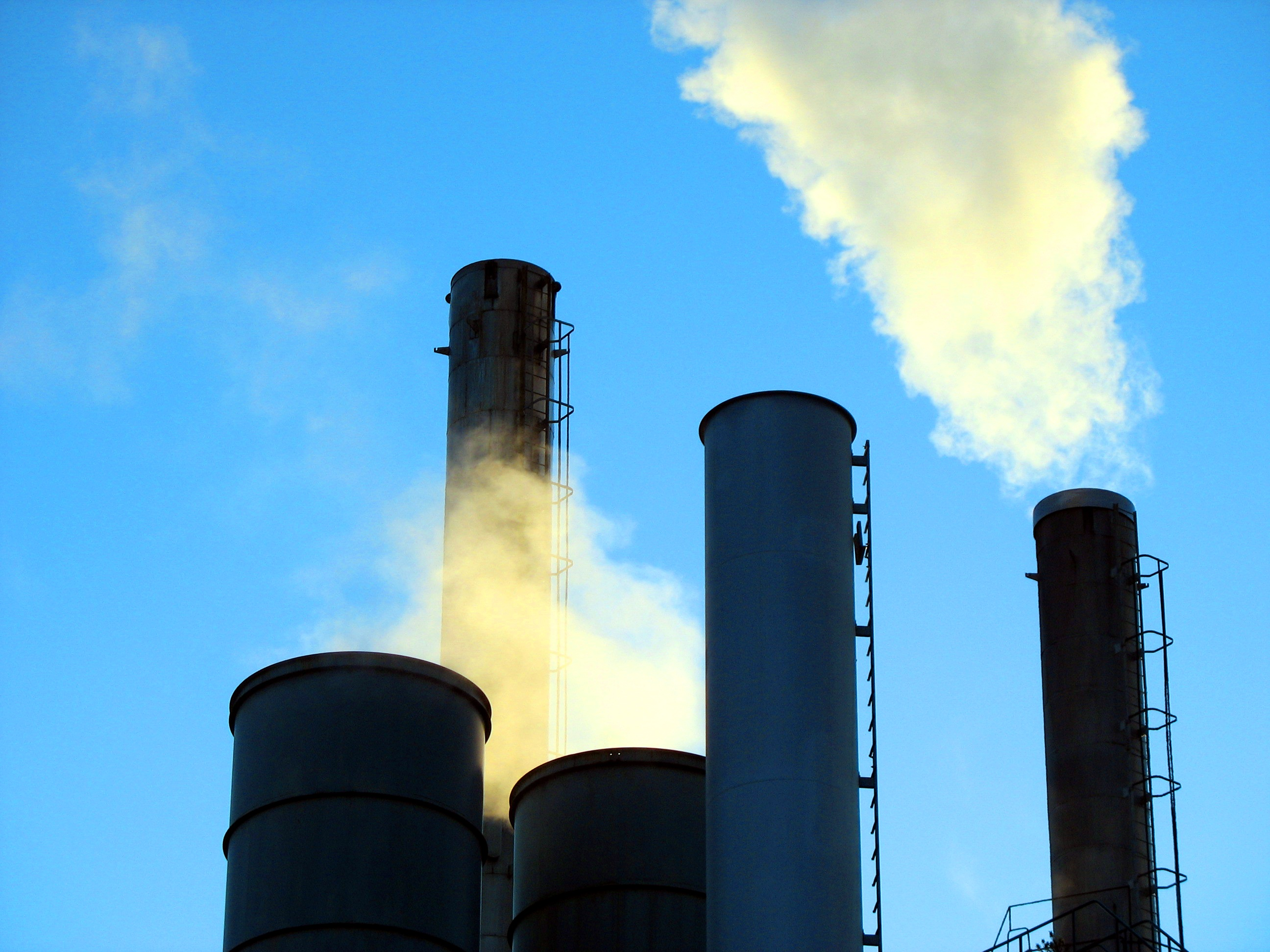 Industry smoke.